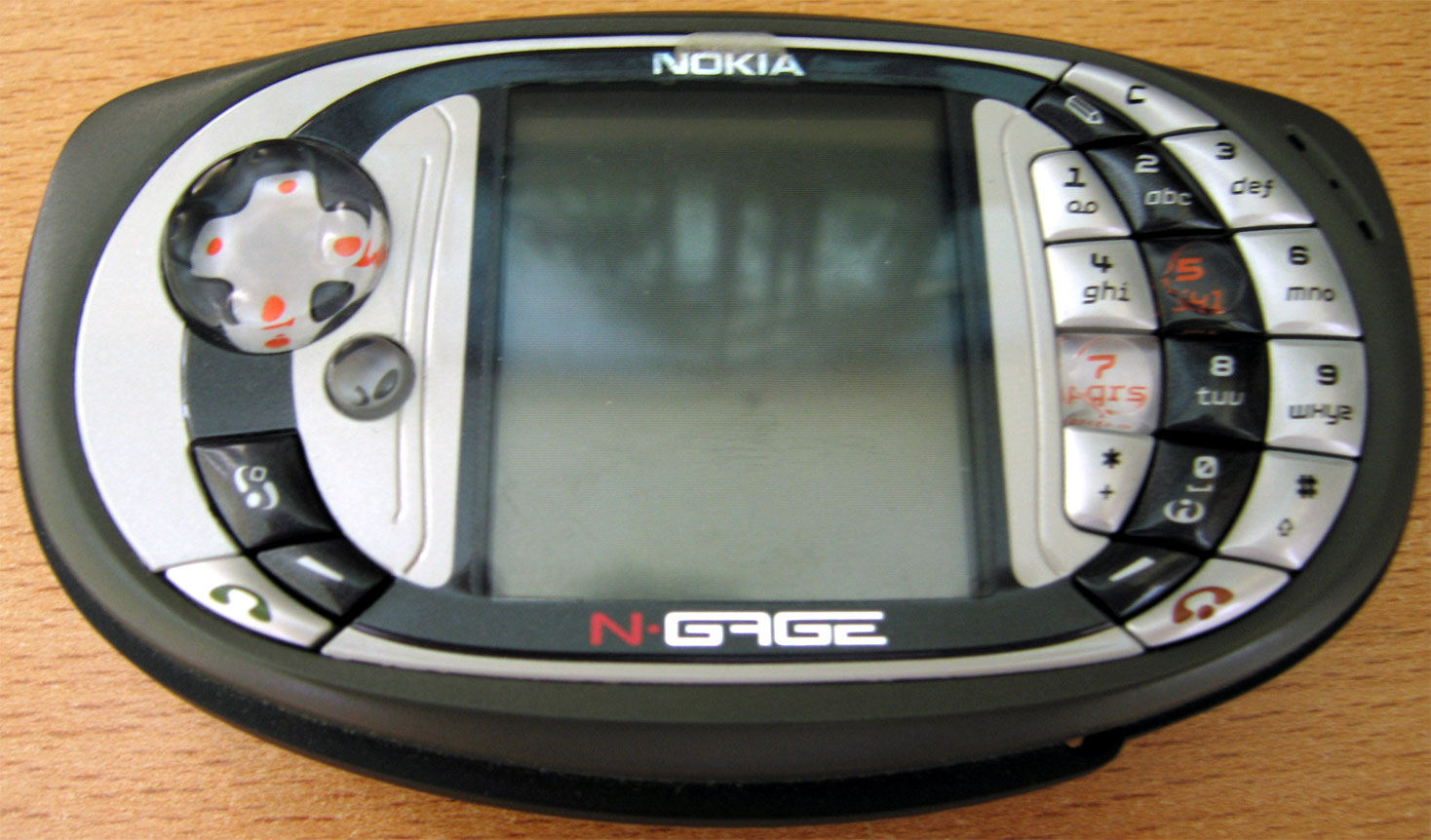 Nokia N-Gage QD